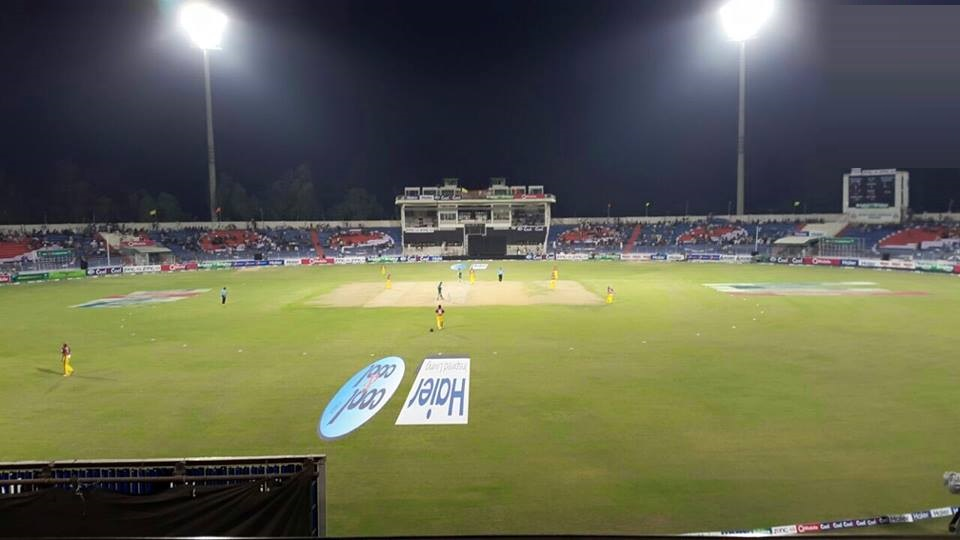 Images is free to use on Wikipedia. I release all rights for image.